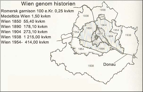 Historical map of Vienna, made by Rudolf 1922